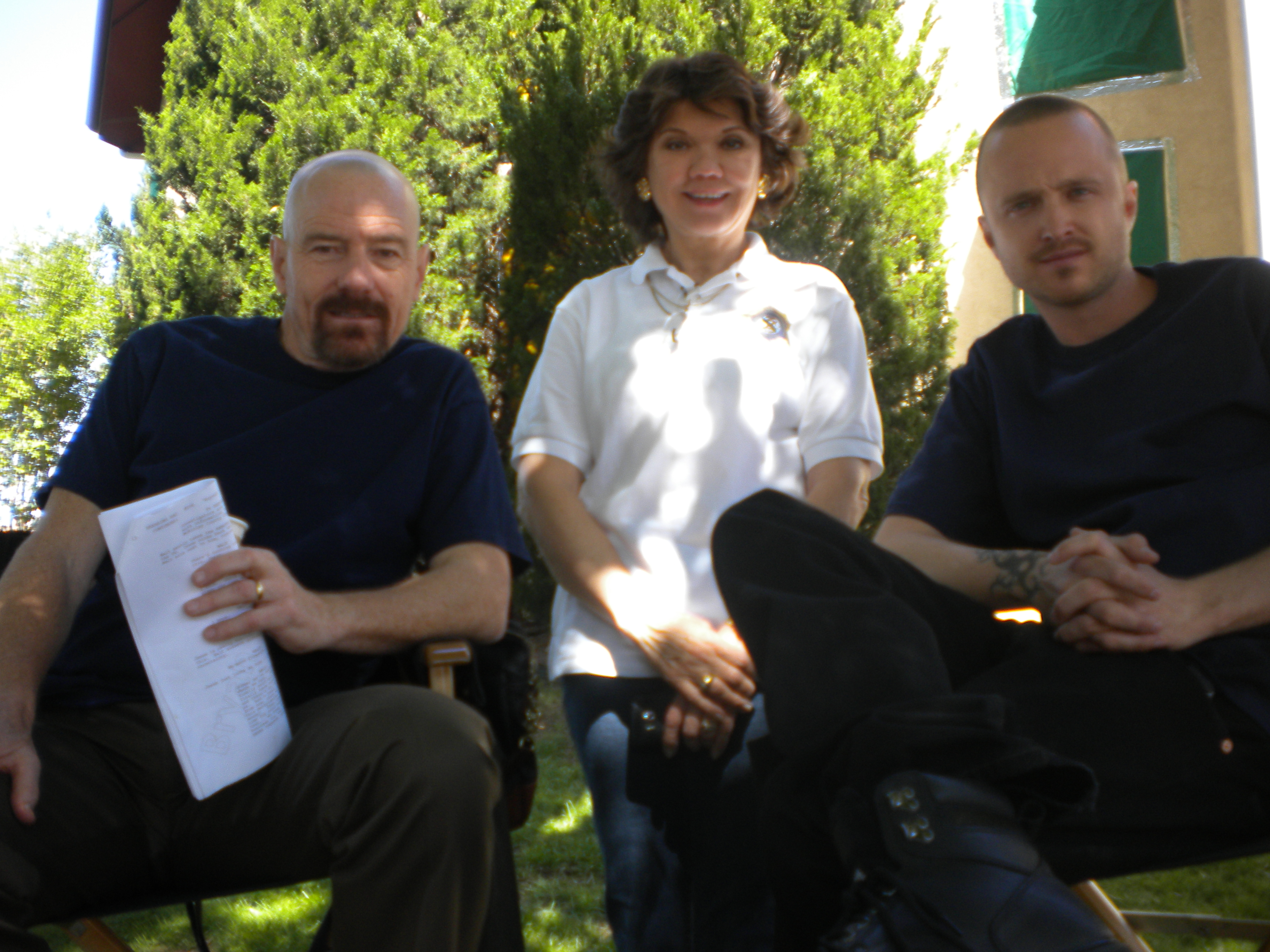 (left to right) Bryan Cranston who plays Walter White, Dr. Donna Nelson and Aaron Paul who plays Jesse Pinkman, during a set visit to AMC's Emmy Award-winning series "Breaking Bad" in Albuquerque, NM. Dr. Nelson serves as a Science Advisor for the show.